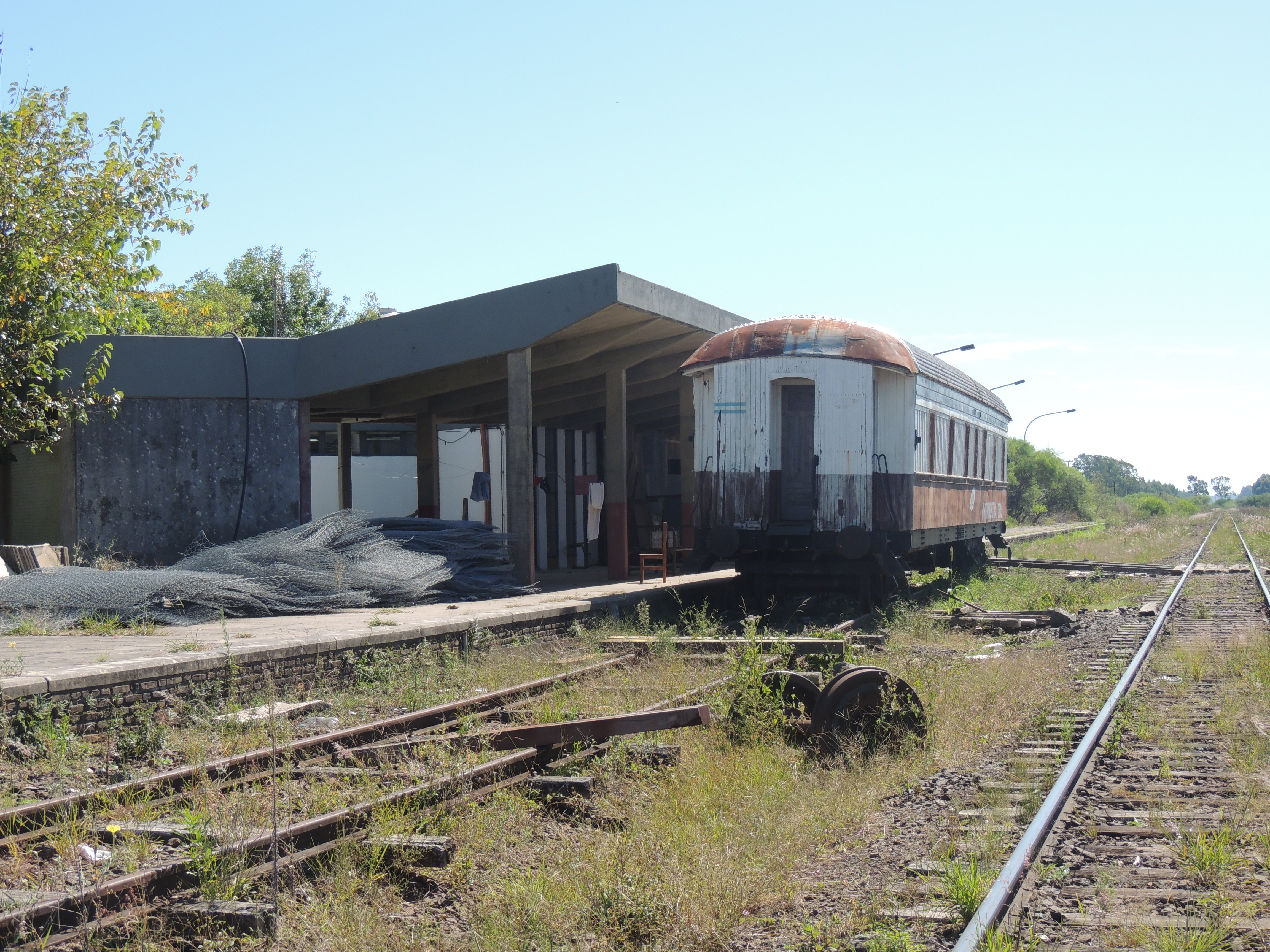 Federación train station, you can see a train from the company ALL